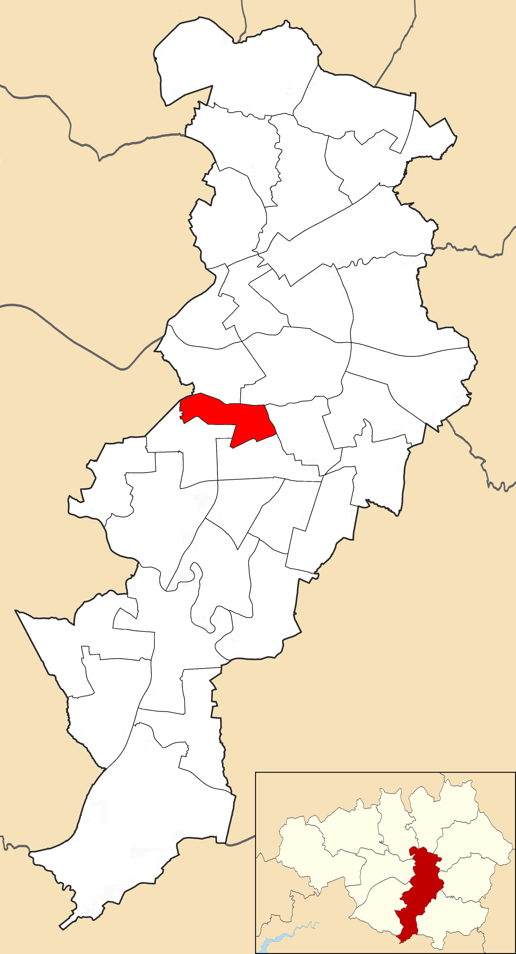 Map showing location of Moss Side ward within Manchester City Council.